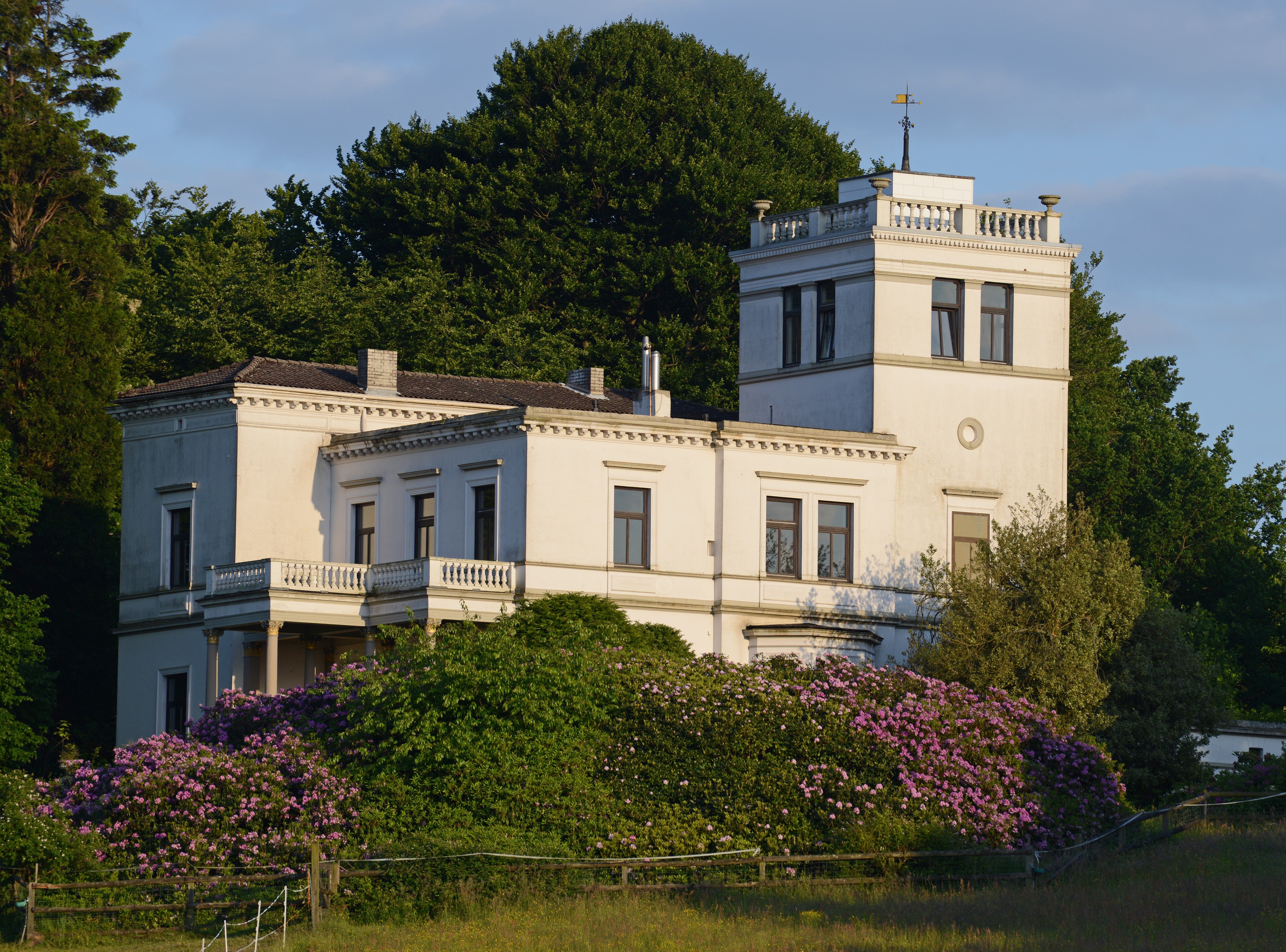 Cultural Heritage Monument in Syke Finkenburg